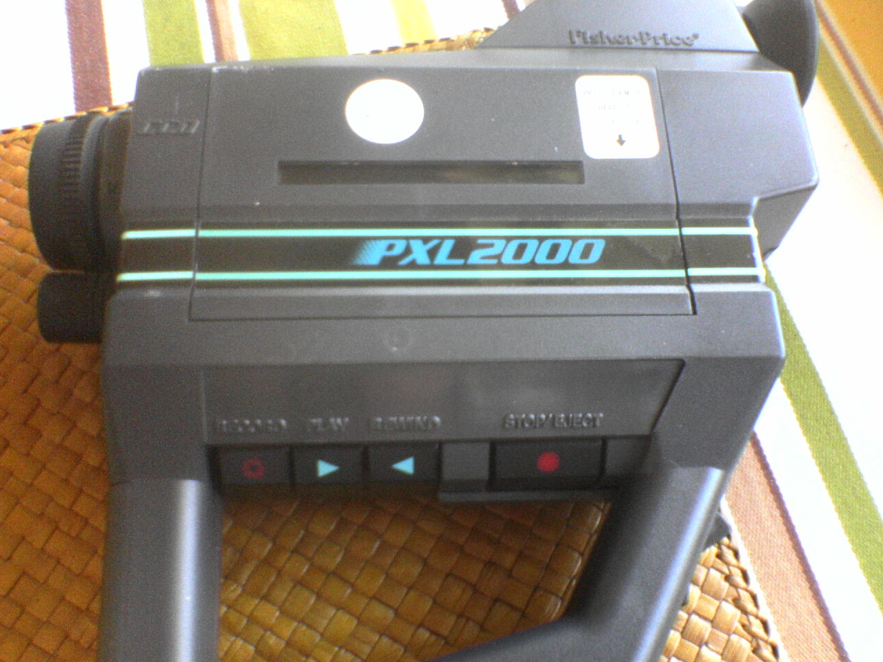 Fisher Price PXL2000 Video Camera